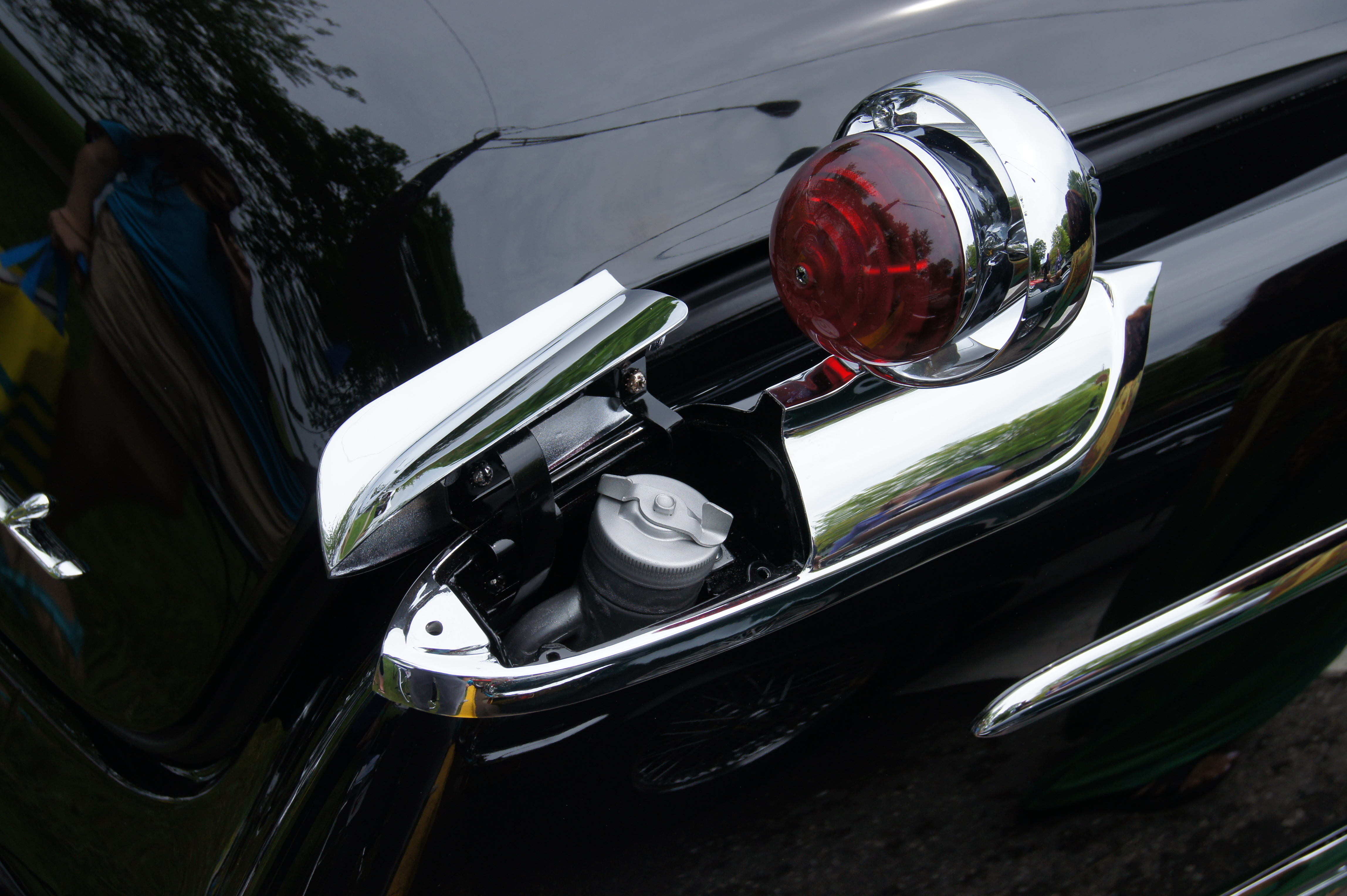 2nd Annual 10,000 Lakes Concours d'Elegance to Benefit Courage Center Foundation June 1, 2014 Excelsior Commons Excelsior Minnesota Thousands of car pictures at the link below